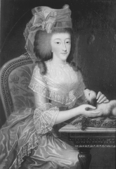 Portrait of Princess Maria Theresa of Savoy (1756-1805)